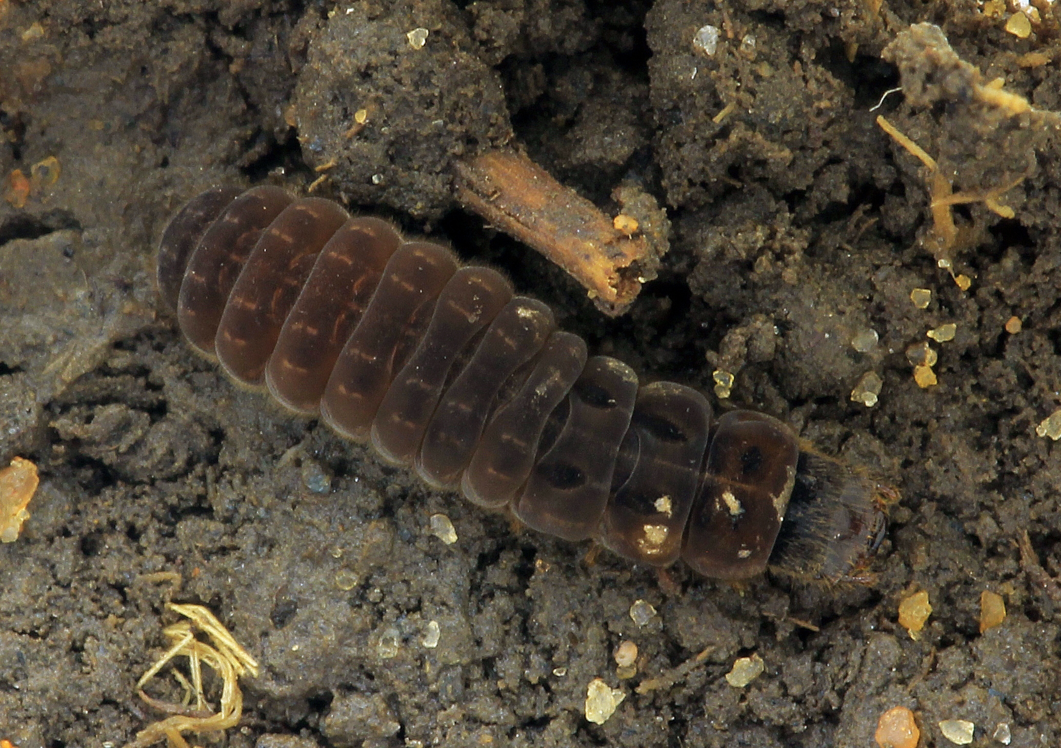 Cantharis rufa larva